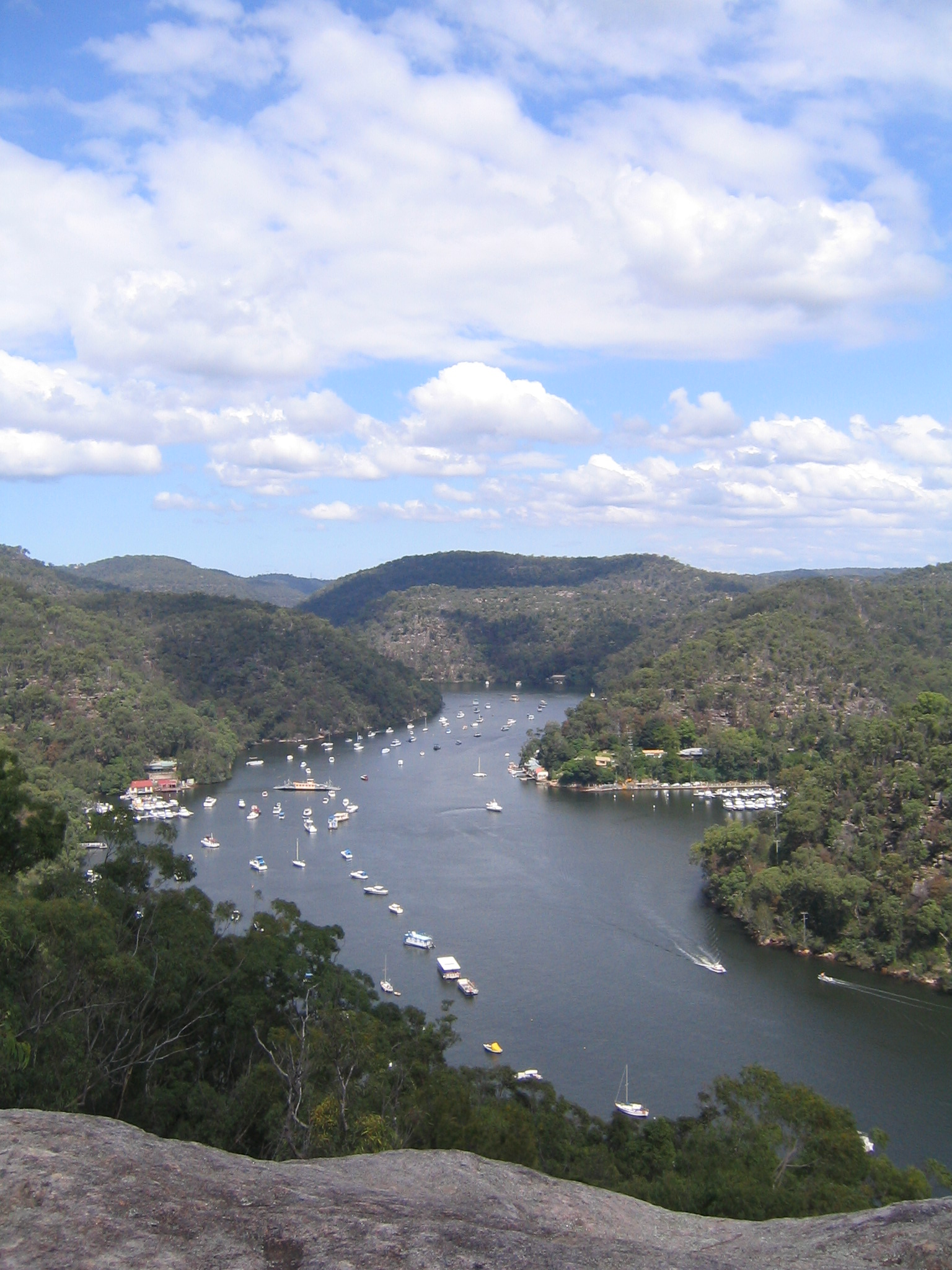 A view of Berowra Waters, part of Berowra Creek near Sydney in in New South Wales, Australia. Taken from a Rock on the Benowie Track, North of Berowra Waters. The Berowra Waters Punt is visible travelling across the creek about halfway up the picture slightly left of centre.